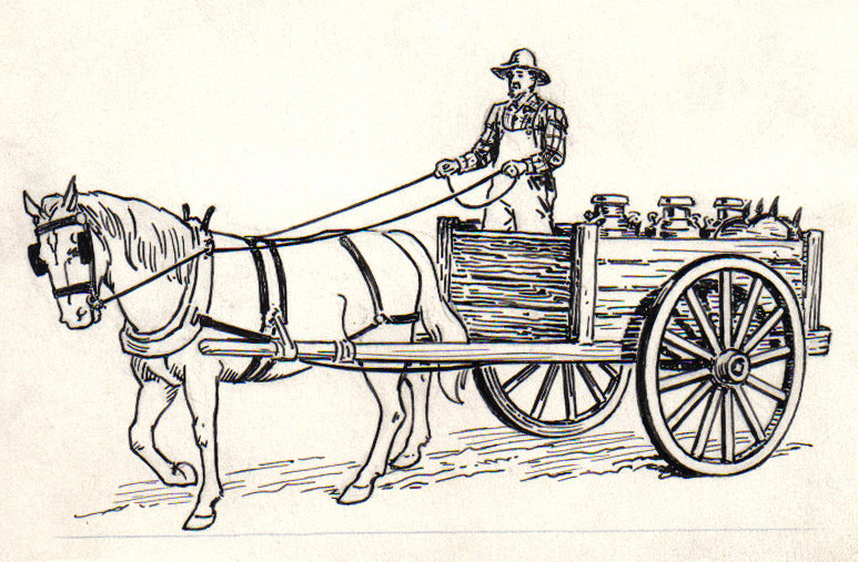 line art drawing of cart